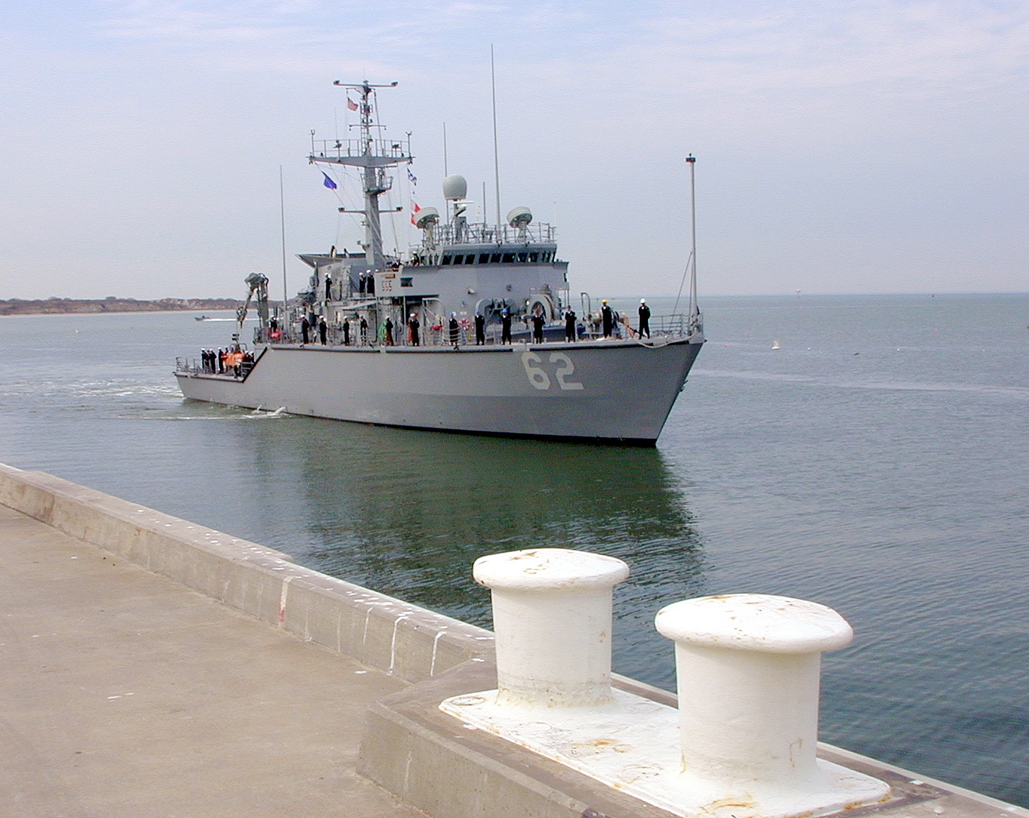 Naval Station Ingleside, Texas (Feb. 14, 2002) -- The coastal minehunter USS Shrike (MHC 62) returns to its homeport of Ingleside, Texas, after a two-month deployment. Shrike along with elements of Mine warfare Readiness Group Four, participated in a number of exercises, including Joint Task Force Exercise 02-1 with the aircraft carrier USS John F. Kennedy its Battle Group and the amphibious assault ship USS Wasp and her Amphibious Ready Group. U.S. Navy photo by Lieutenant Marc Boyd. (RELEASED)